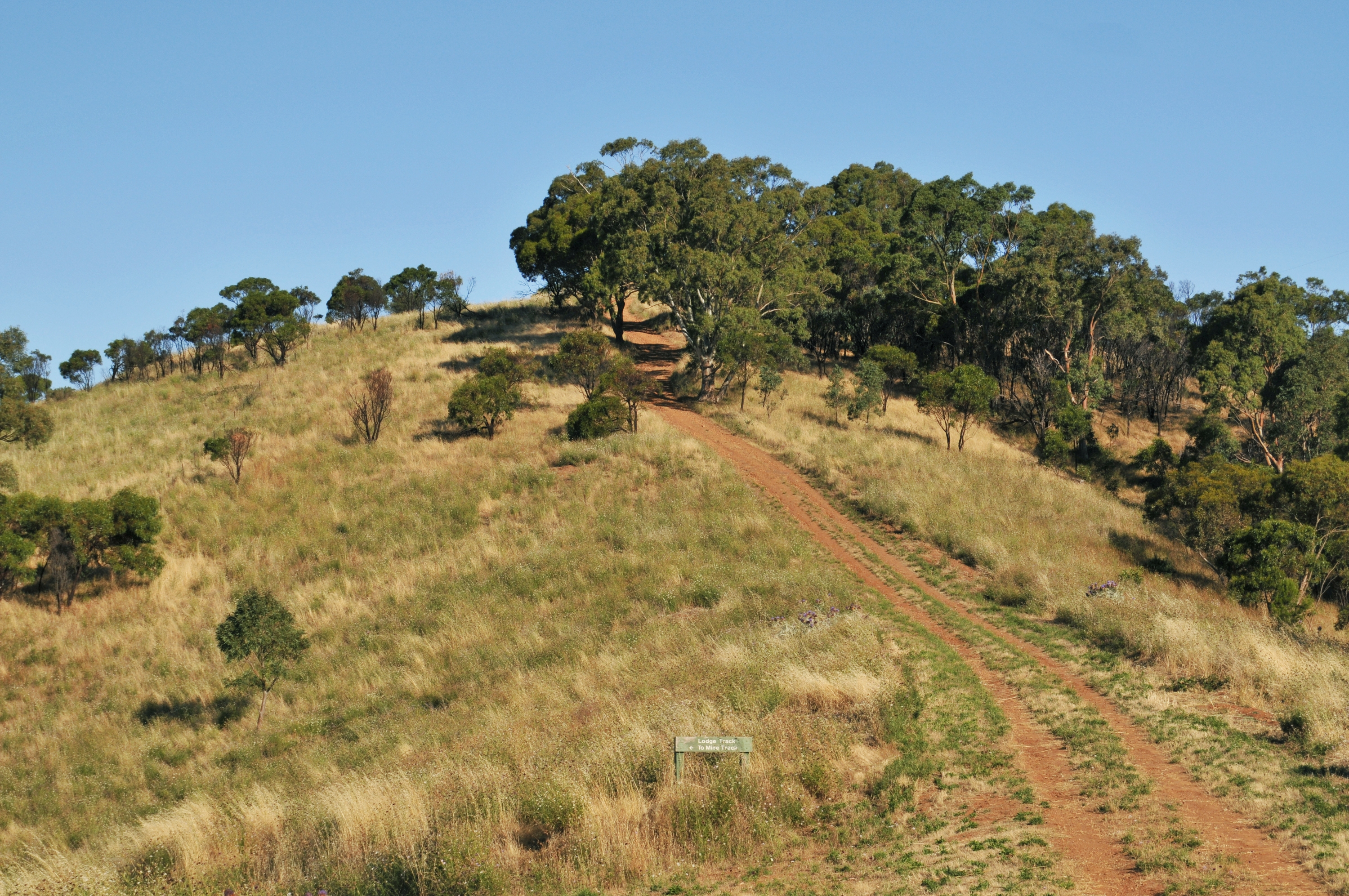 Track to the top of a ridge in Black Hill Conservation Park, Adelaide, South Australia